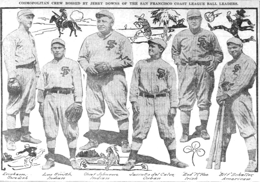 Members of the San Francisco Seals baseball team in 1917.